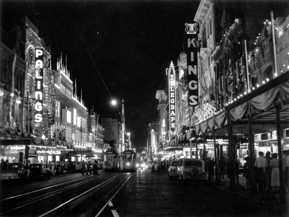 Queen Street, Brisbane, with decorations for the royal visit in 1954 Scene in Queen Street, between George and Albert Streets. (Description supplied with photograph.).